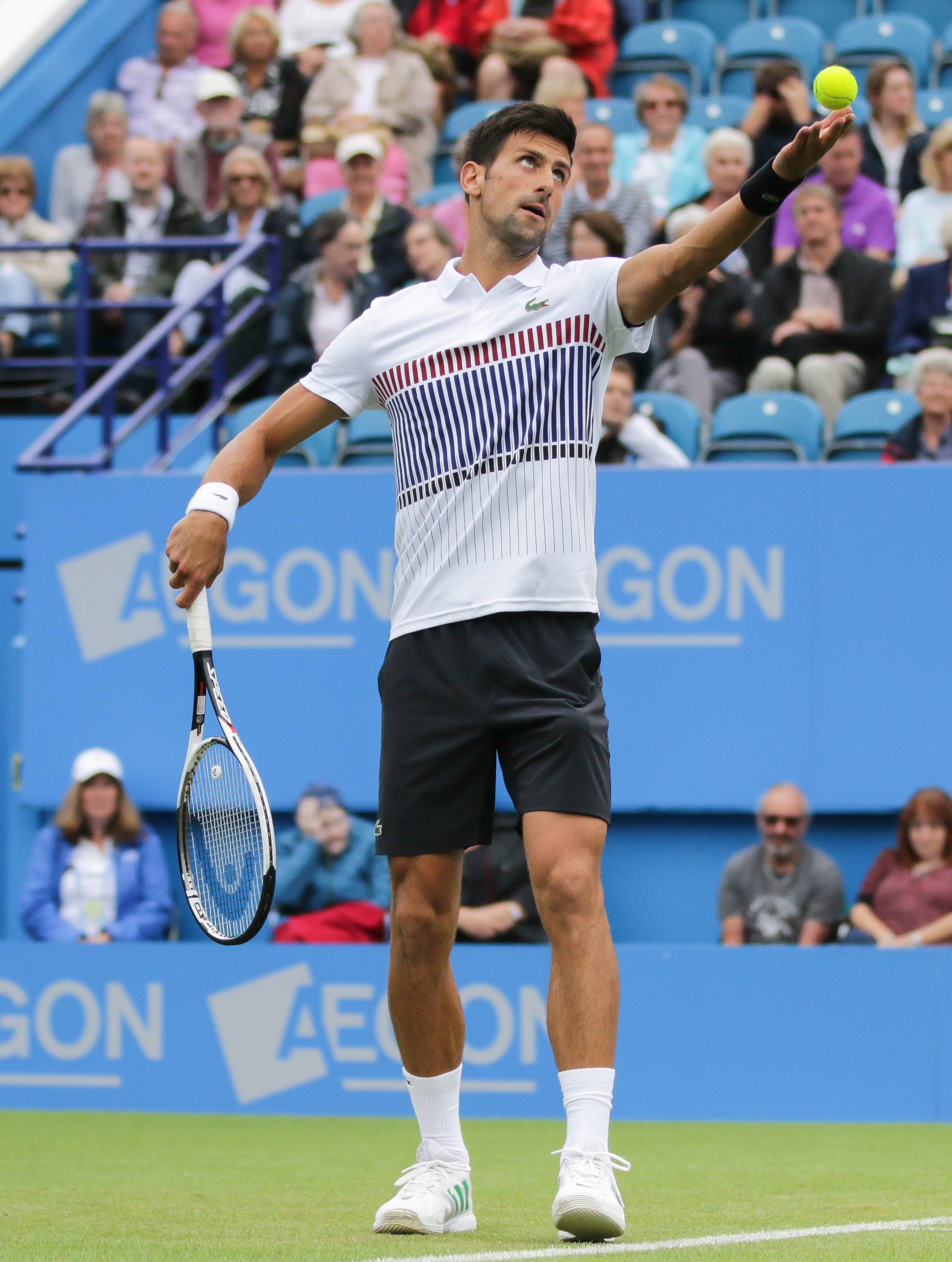 Eastbourne tennis 2017-167.jpg